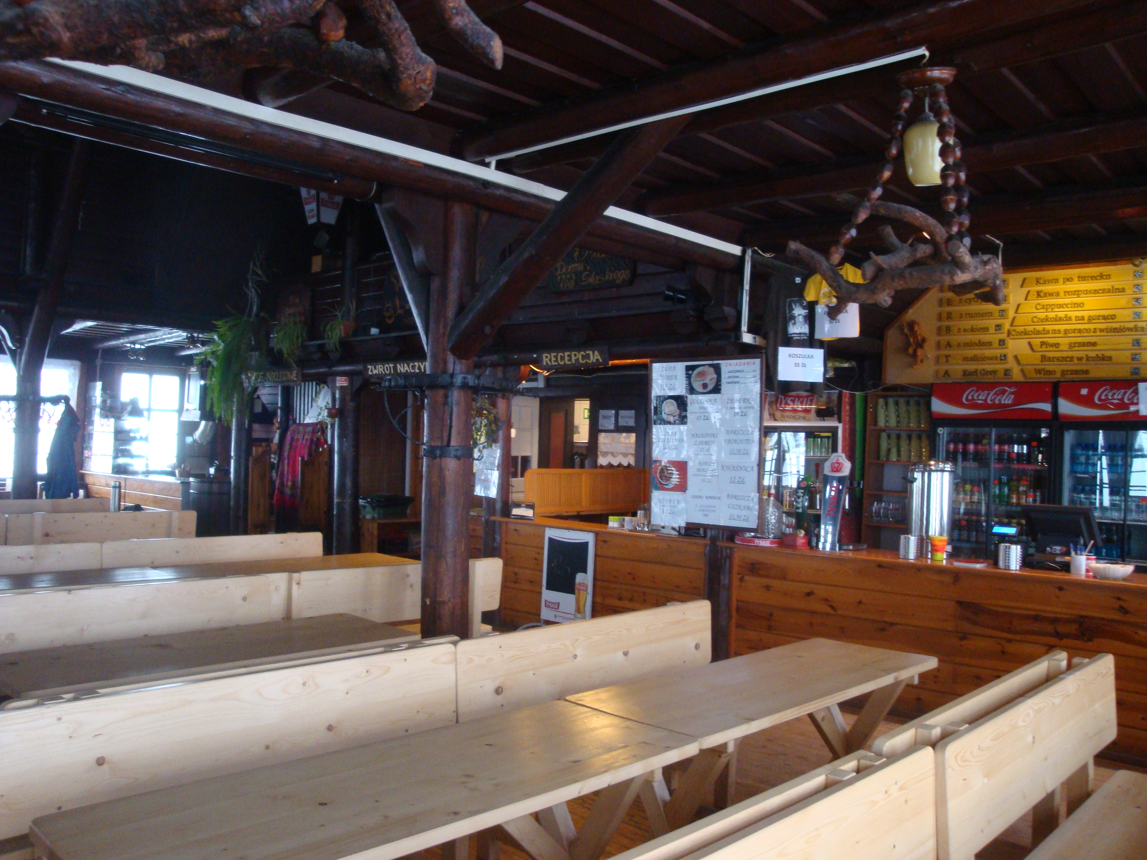 Hostel Dom Śląski in Polish Krkonose.